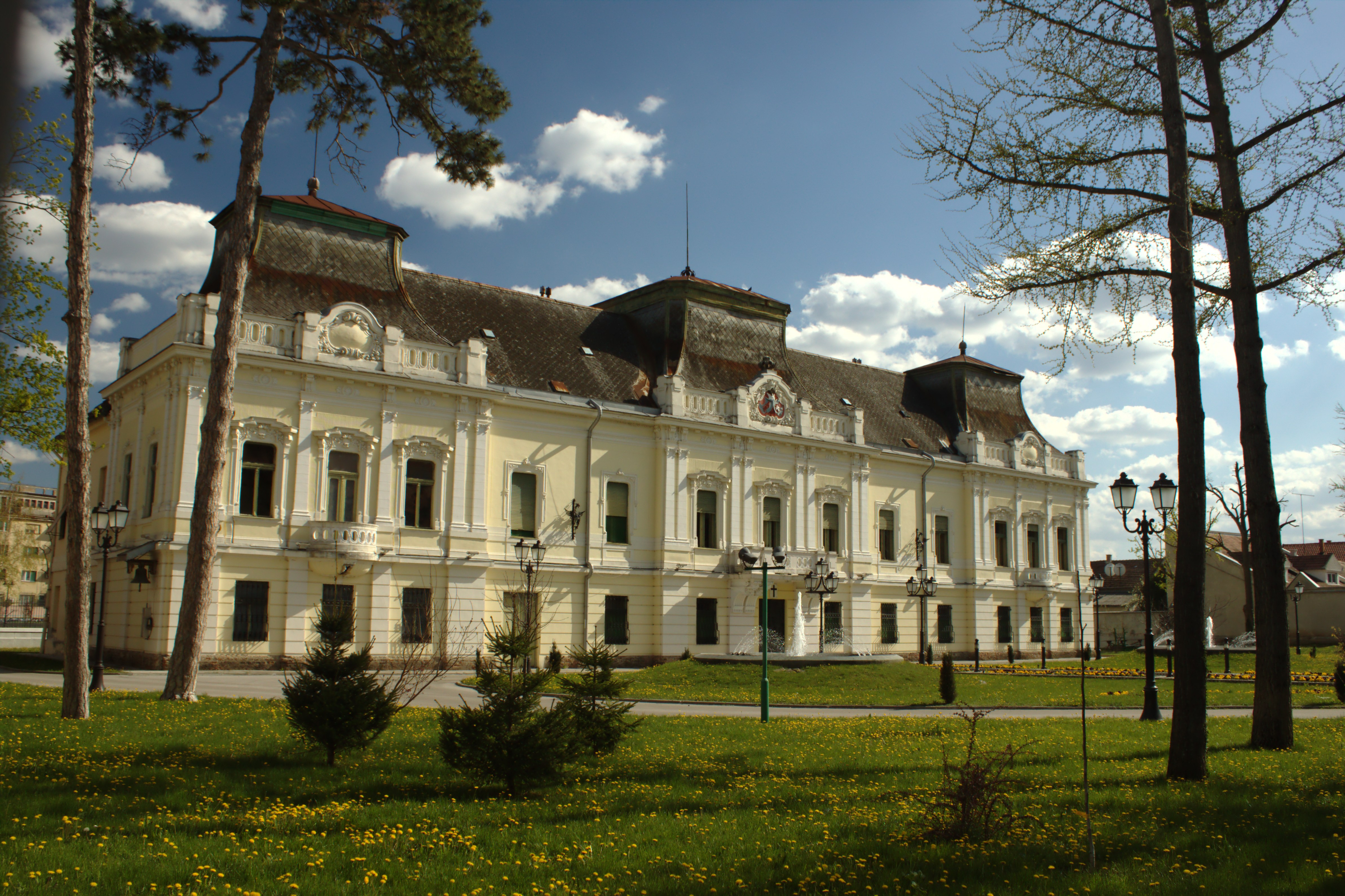 Vladičanski dvor - seat of a church representative - in Vršac, Serbia